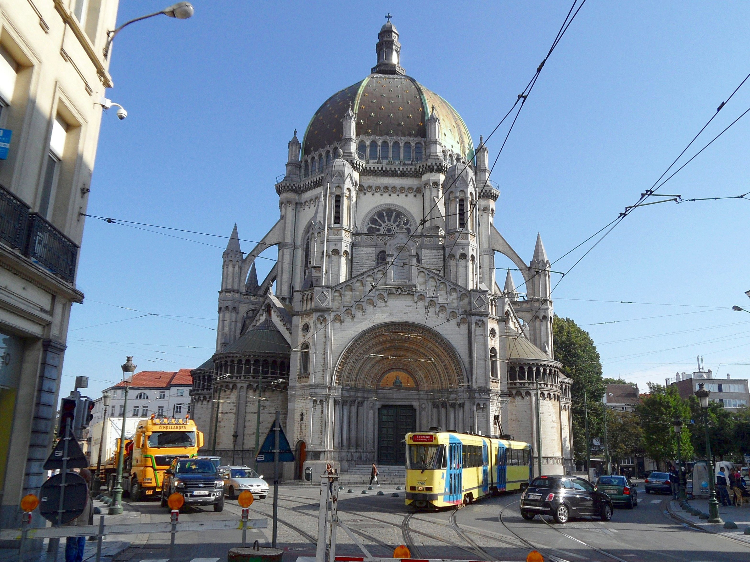 Brussels (Schaerbeek): Église royale Sainte-Marie, from southwest, between Rue des Palais and Place de la Reine; August 2015